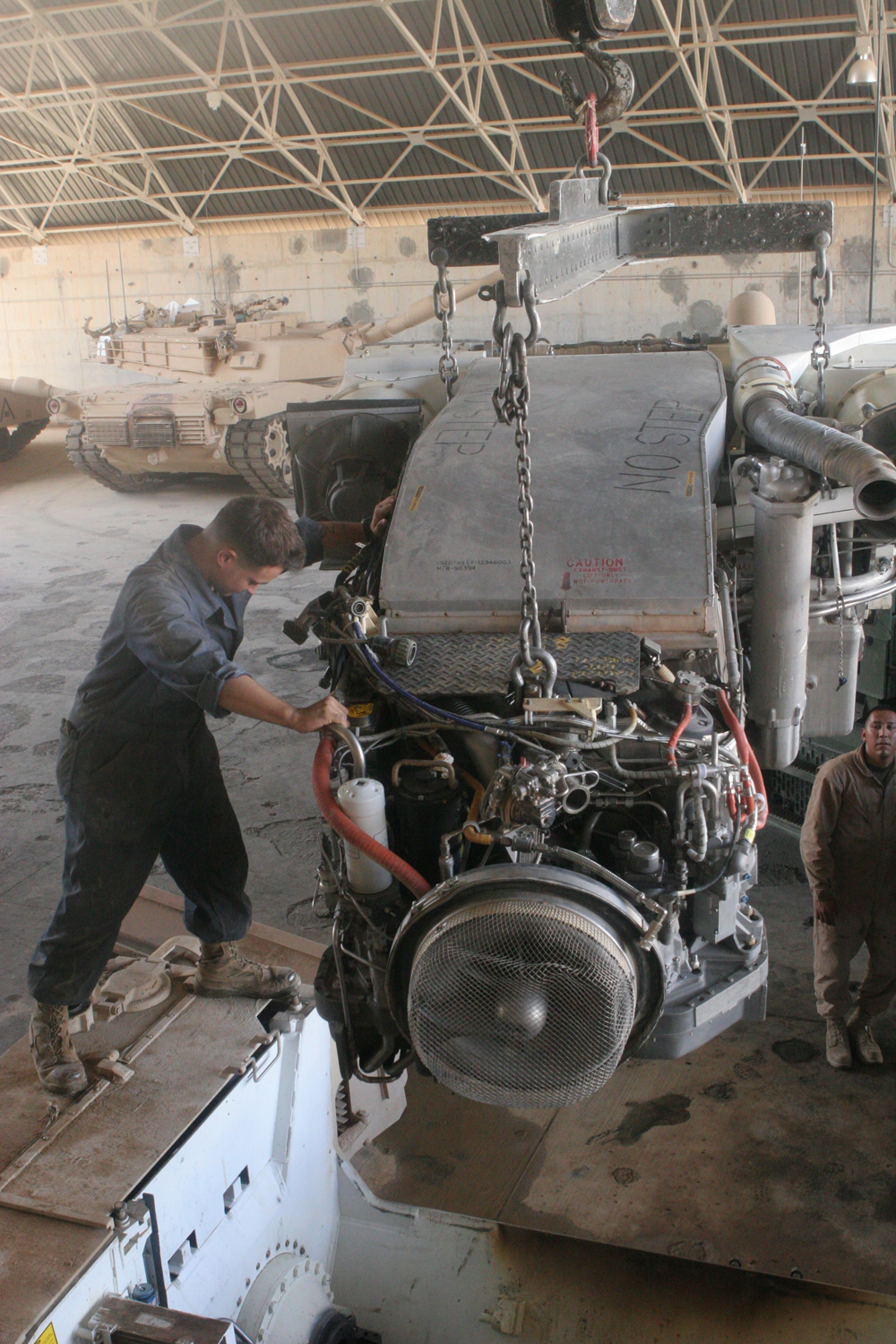 Cpl. Ryan J. Sharkey, 24, from Vista, Calif., who is a tank driver with Company A, 4th Tank Battalion, Regimental Combat Team 5, guides a turbine engine into a M1A1 Abrams main battle tank at Al Asad Air Base, Iraq, Sept. 23. The dust and heat of the Iraqi desert makes it necessary for the Marines with Company A to meticulously check their tanks to guarantee that they are combat ready.